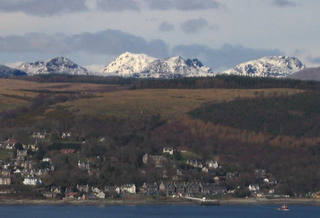 Kilcreggan on the Firth of Clyde, with the Arrochar Alps in the distance about about 29 km (18 miles) to the north of the viewpoint, seen from Tower Hill, Gourock, Scotland